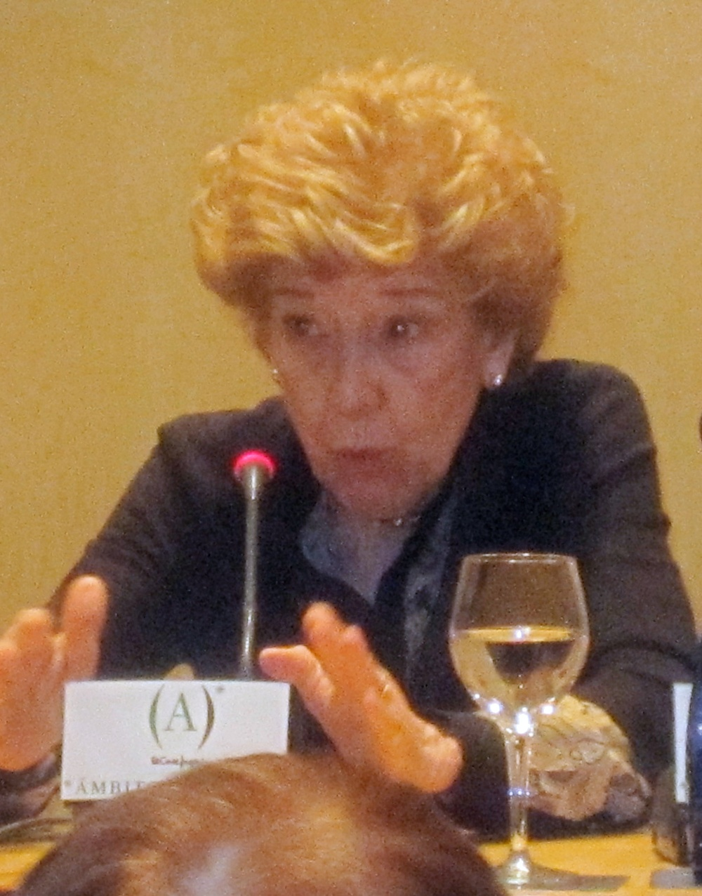 La periodista española Pilar urbano.